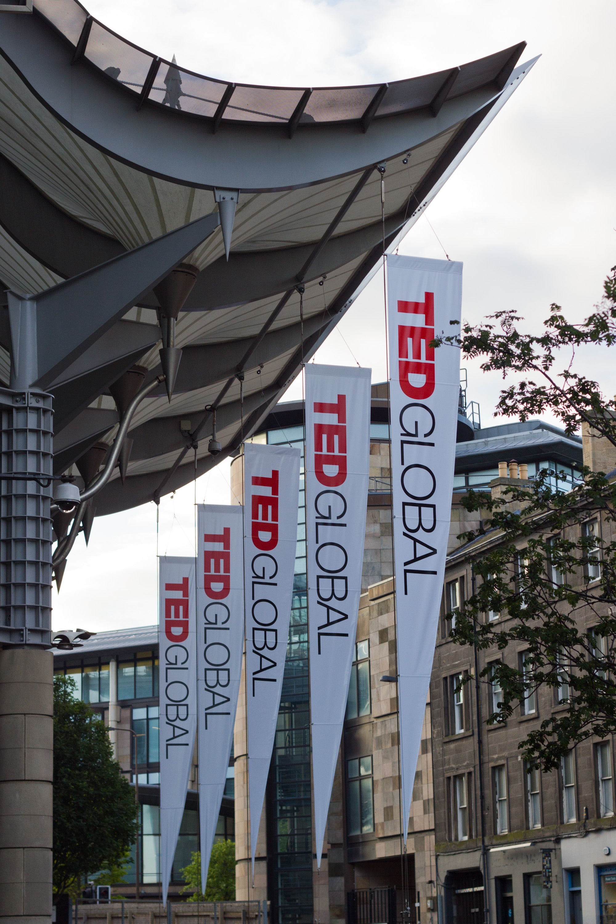 TEDGlobal 2012 Radical Openness at the Edinburgh International Conference Centre. June 25-29 2012, Edinburgh, Scotland.